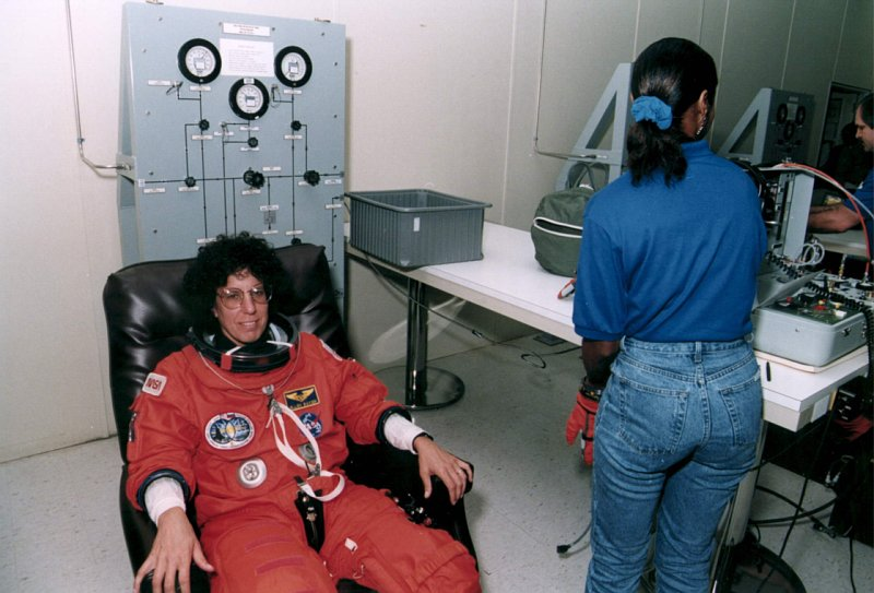 STS-71 Payload Commander Dr. Ellen S. Baker is assisted by a suit technician as she dons her launch/entry suit in the Operations and Checkout Building. Her third spaceflight will be an historic one for Baker, a medical doctor, as she oversees the series of scientific investigations that will be conducted during the first docking of the U.S. Space Shuttle to the Russian Space Station Mir. Baker and six fellow crew members -- four Americans and two Russian cosmonauts -- will shortly depart for Launch Pad 39A, where the Space Shuttle Atlantis awaits liftoff during a 10-minute launch window opening at 3:32 p.m. EDT. (Photo Release Date: 6/27/95)